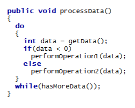 A snippet of code in the Java programming language written to illustrate syntax highlighting of keywords.